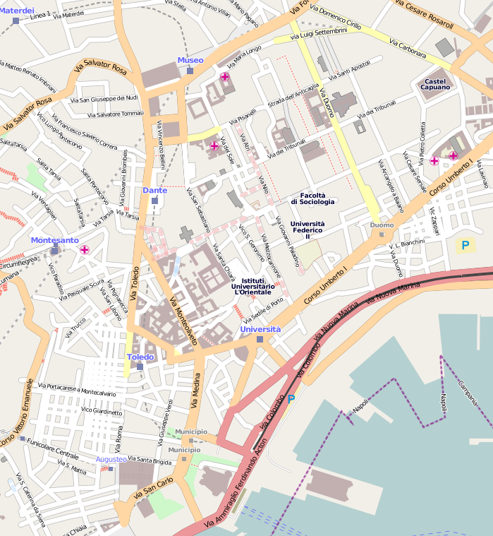 A map of Naples' historic centre